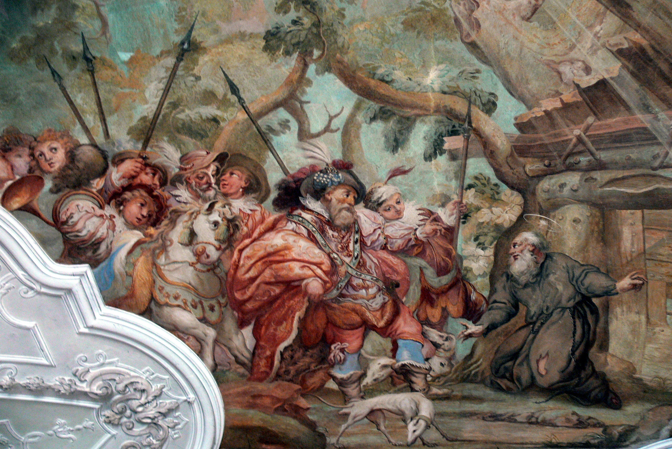 Metten ( Lower Bavaria ). Abbey church: Fresco ( 1722/24 ) in the narthex by Wolfgang Andreas Heindl - Emperor Carolus Magnus meeting hermit Utto ( Foundation legend of the abbey ).